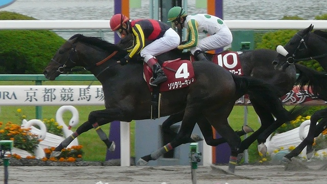 Solitary-King20120519-1